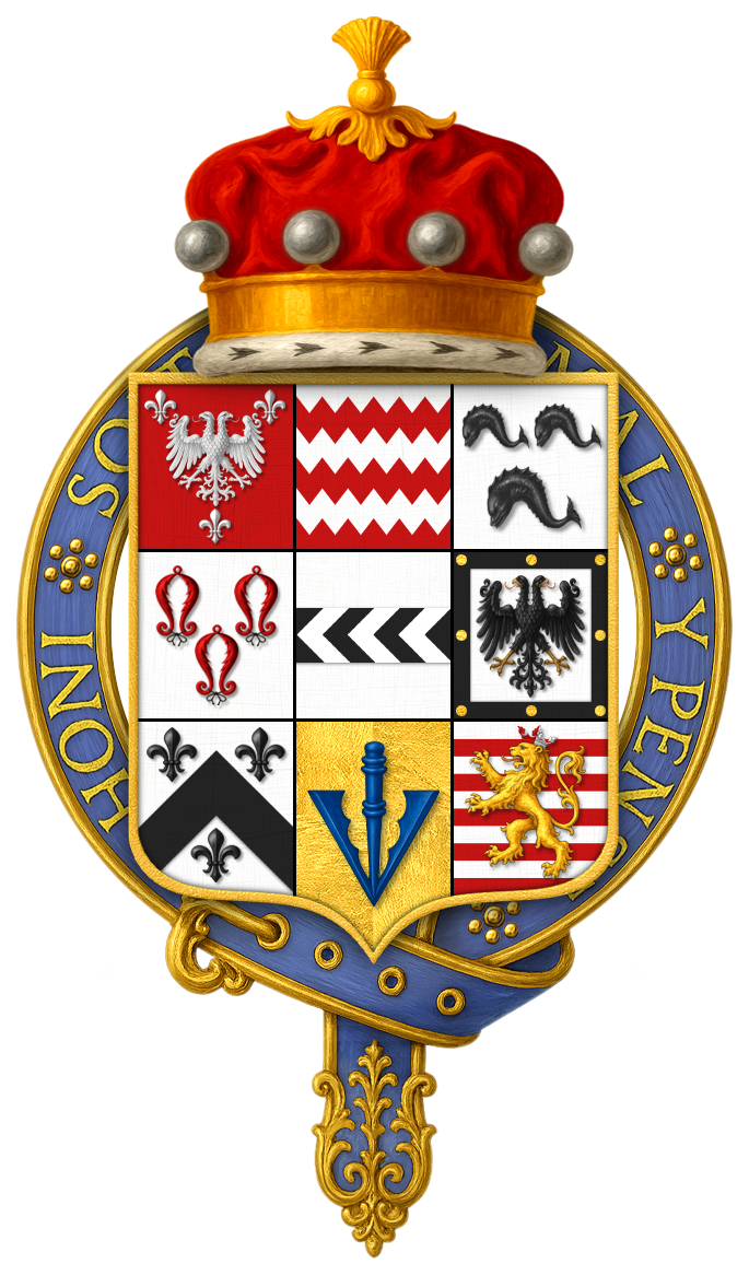 Coat of arms of Sidney Godolphin, 1st Baron Godolphin, KG (later 1st Earl of Godolphin)